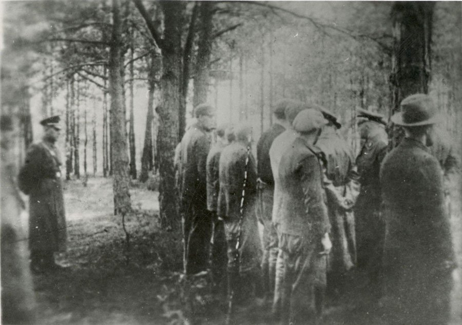 Piaśnica (Groß Piasnitz) in the Darzlubska Wilderness - place of the one of the greatest nazi crimes in Polish Pomerania. This picture shows confiscation of victim's documents before the execution. The picture was taken by Waldemar Engler - volksdeutscher from Wejherowo and member of the SS (he was photographer in civilian life) Prints of photos that he made in Piaśnica were stolen by his Polish workers.